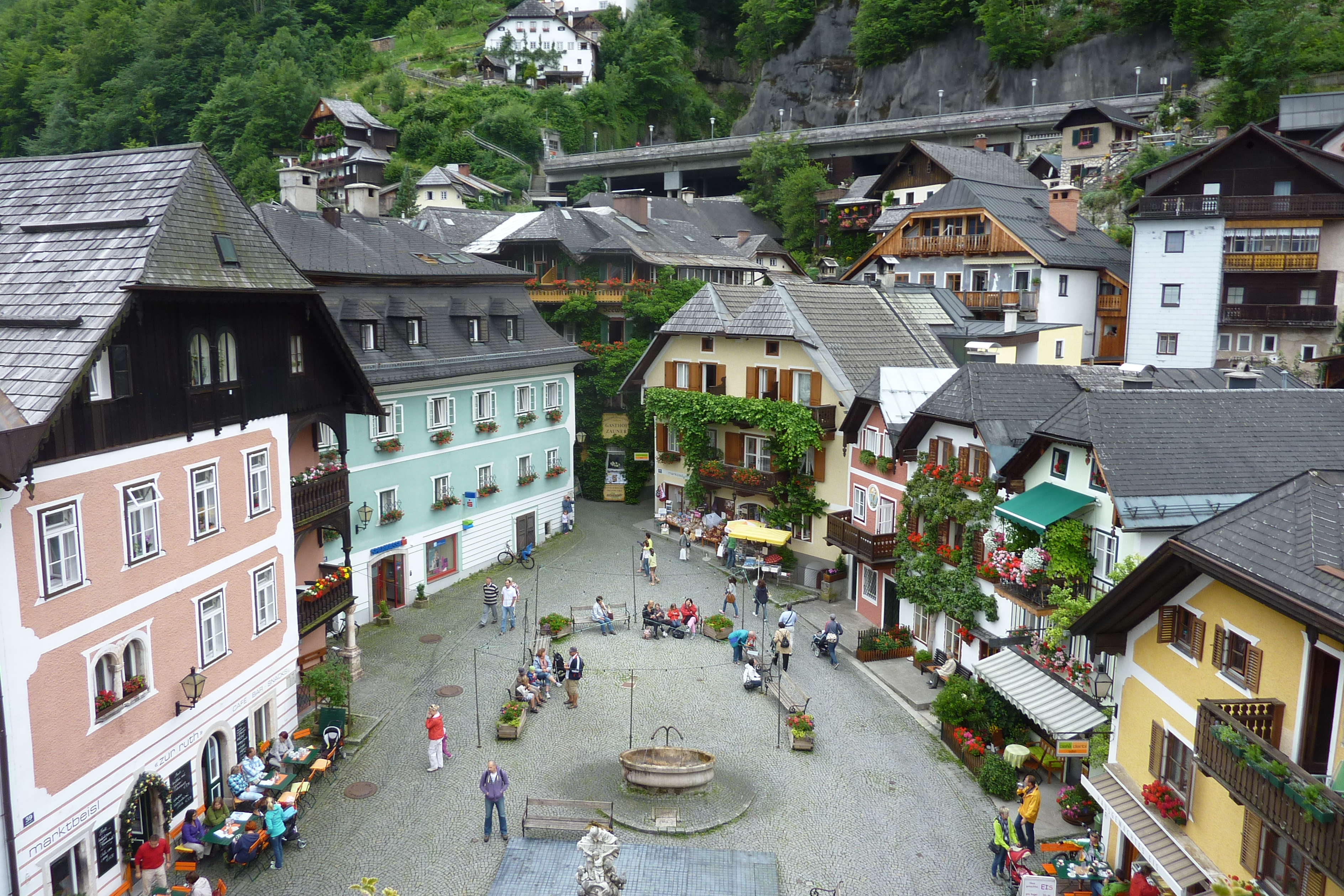 Hallstatt, Upper Austria, Austria, Europe